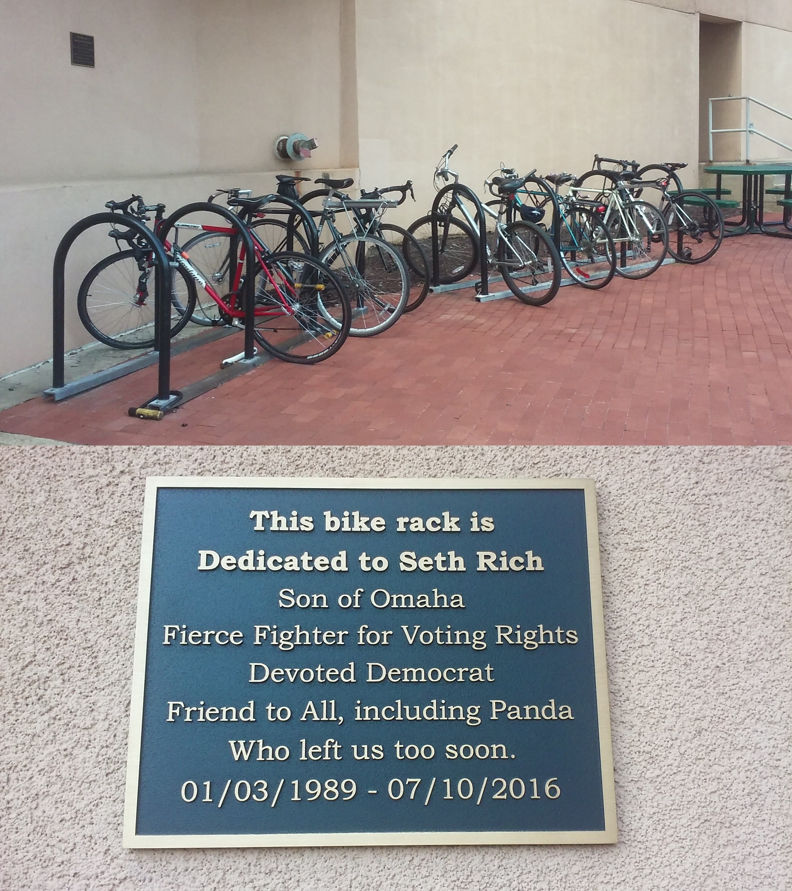 Seth Rich bike rack and plauqe outside the DNC headquarters